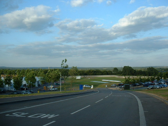 Recreation land near Telegraph Woods. A cricket field near the Hampshire Rose Bowl cricket ground.